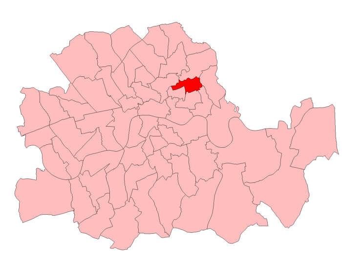 A map of Bethnal Green North East constituency within the London County Council area, as it existed from 1918 to 1949.